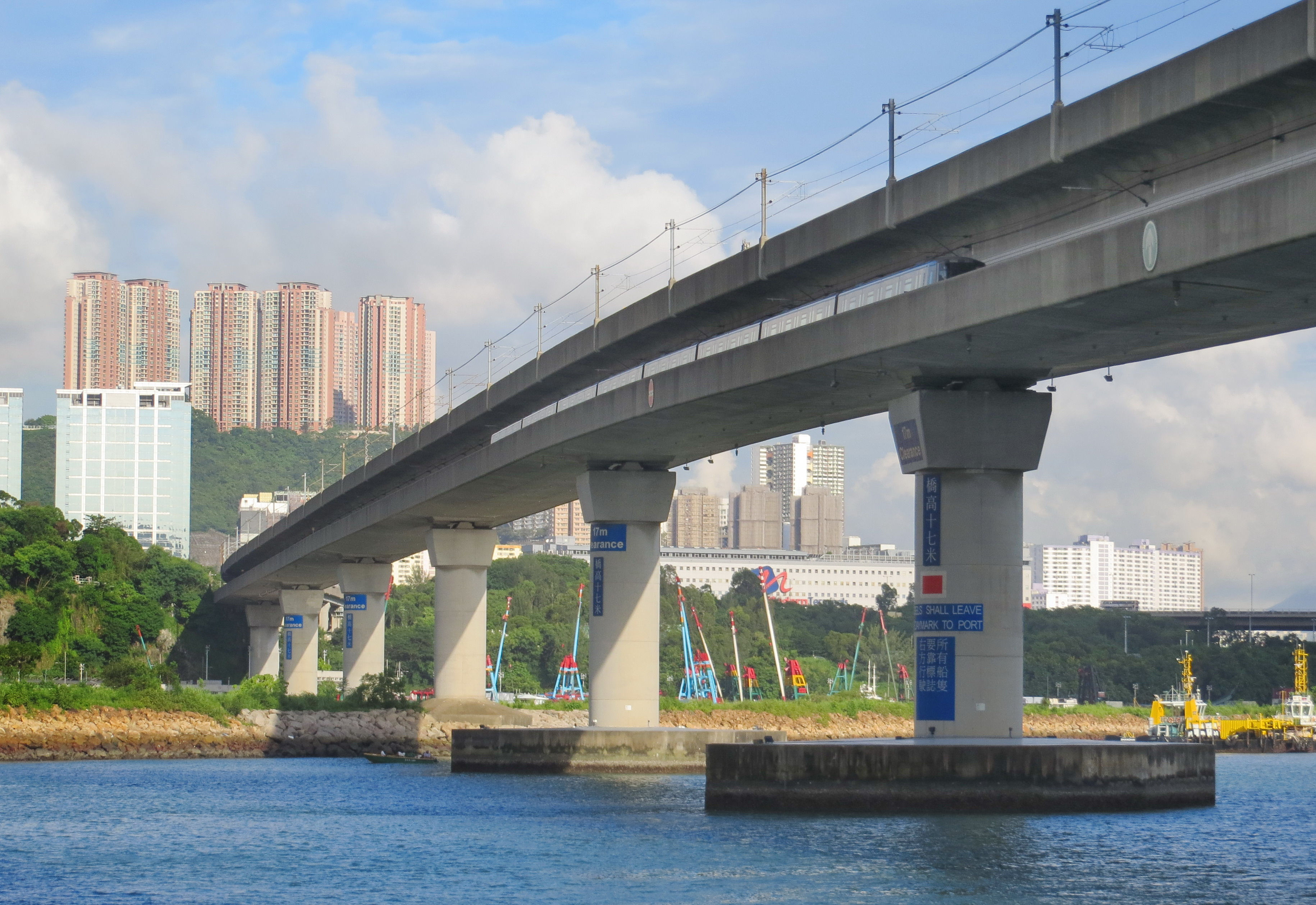 Tsing Lai Bridge, Tung Chung Line, Mass Transit Railway (MTR), Hong Kong.